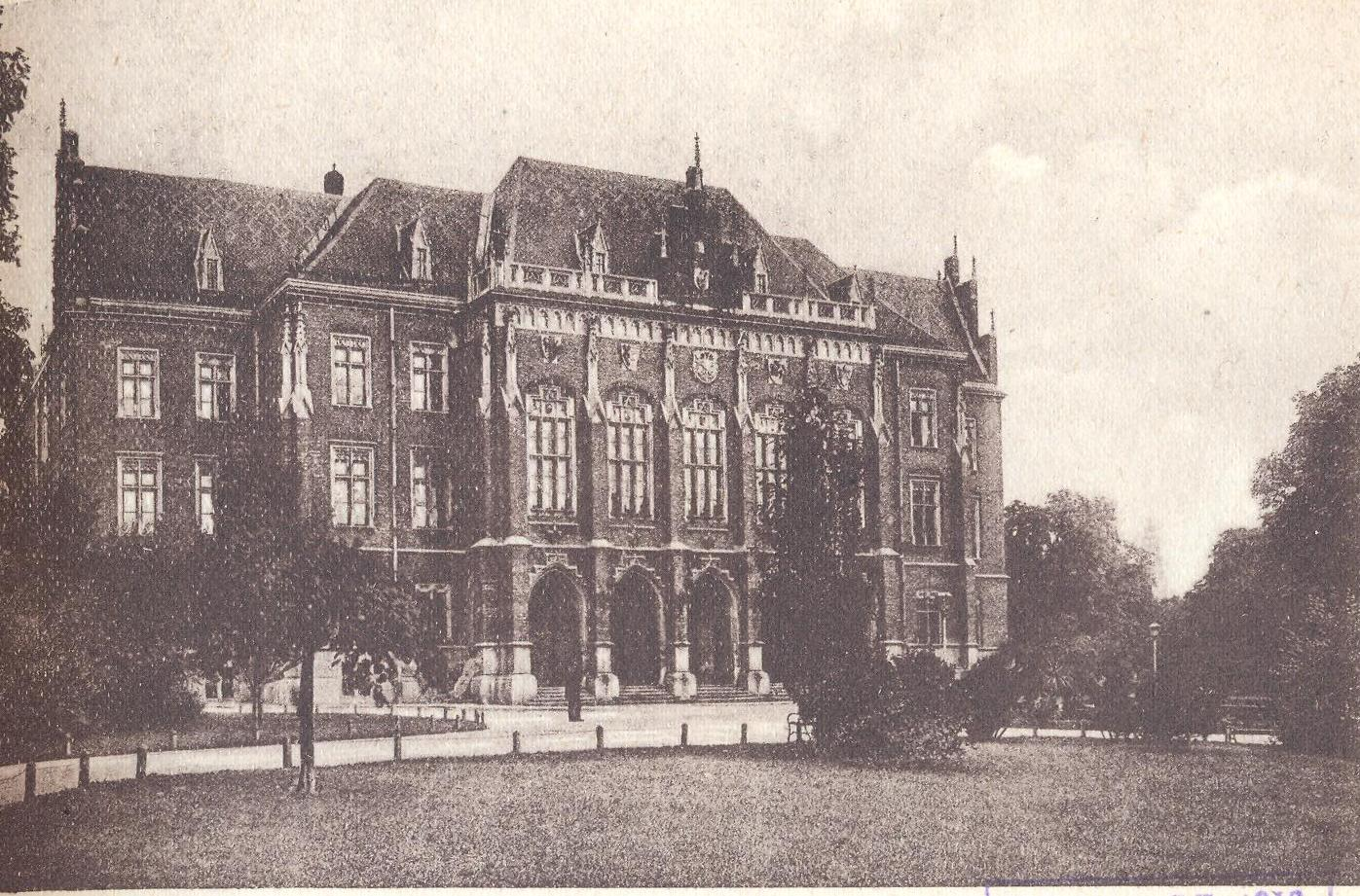 Jagiellonian University, Krakow, Poland.